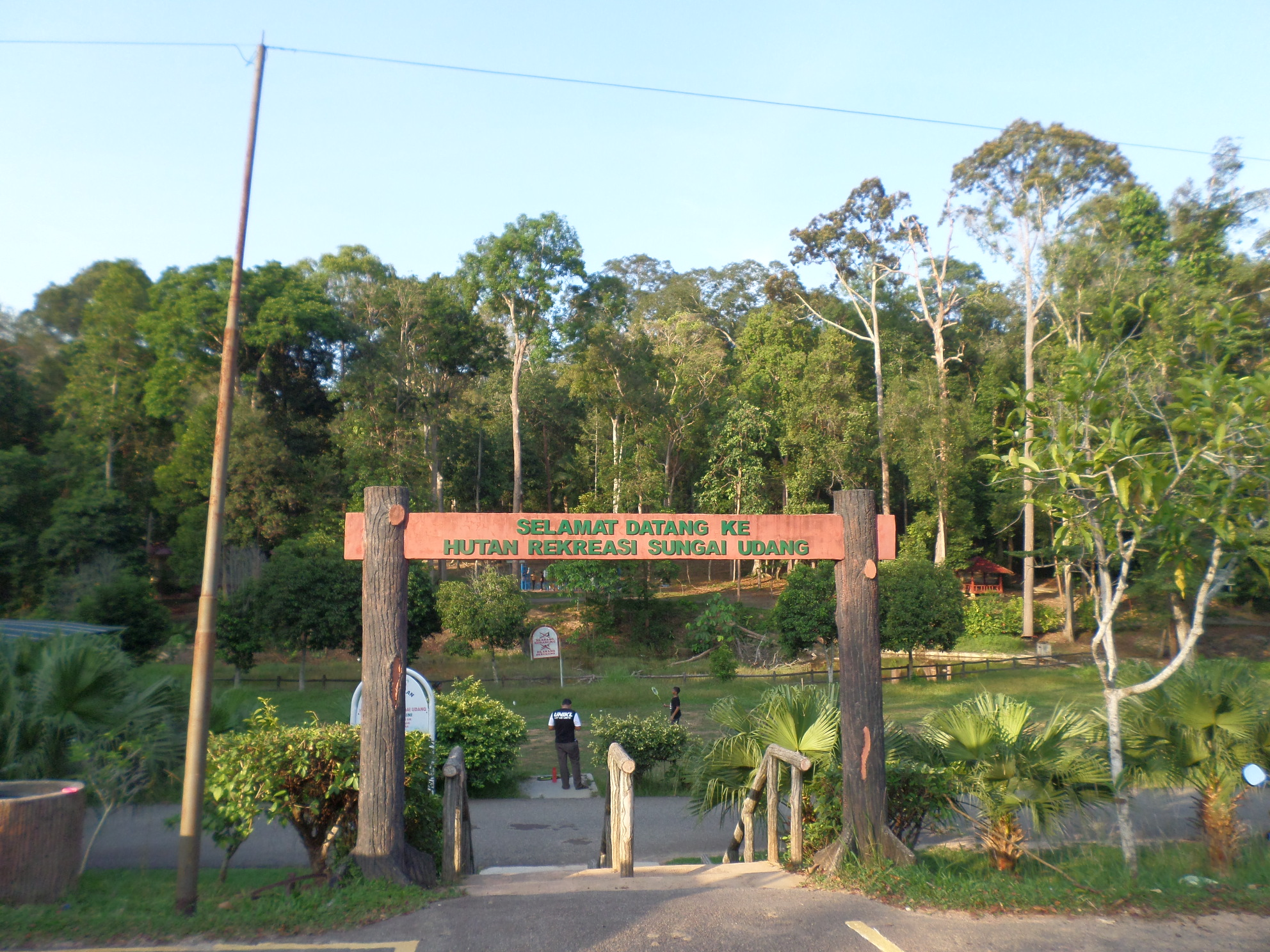 Sungai Udang Recreational Forest, Sungai Udang, Central Malacca, Malacca, MalaysiaBahasa Melayu: Hutan Rekreasi Sungai Udang, Sungai Udang, Melaka Tengah, Melaka, Malaysia